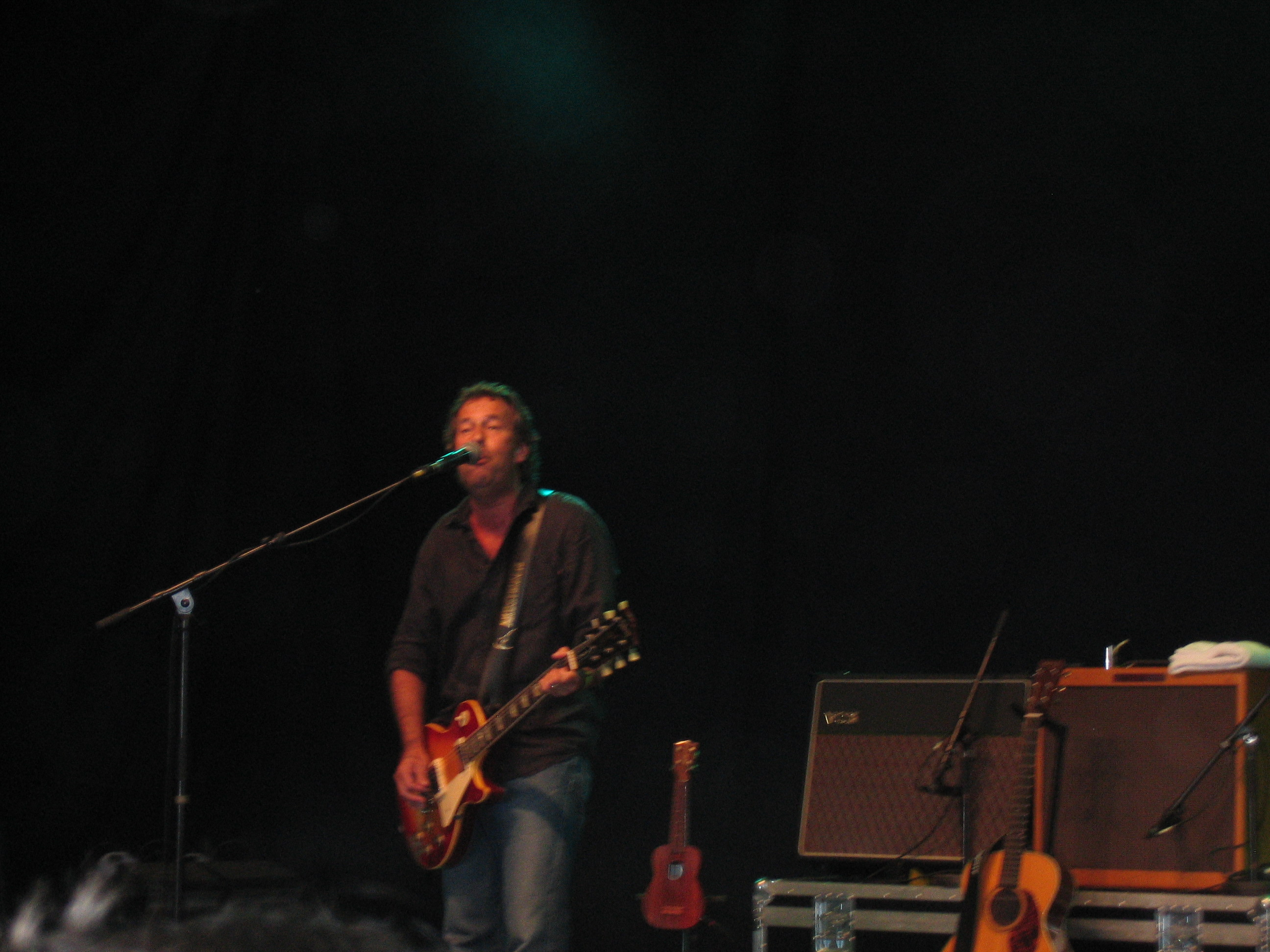 Nice Little Penguins guitarist at Langelandsfestivalen 2006. Picture taken by User:Lhademmor